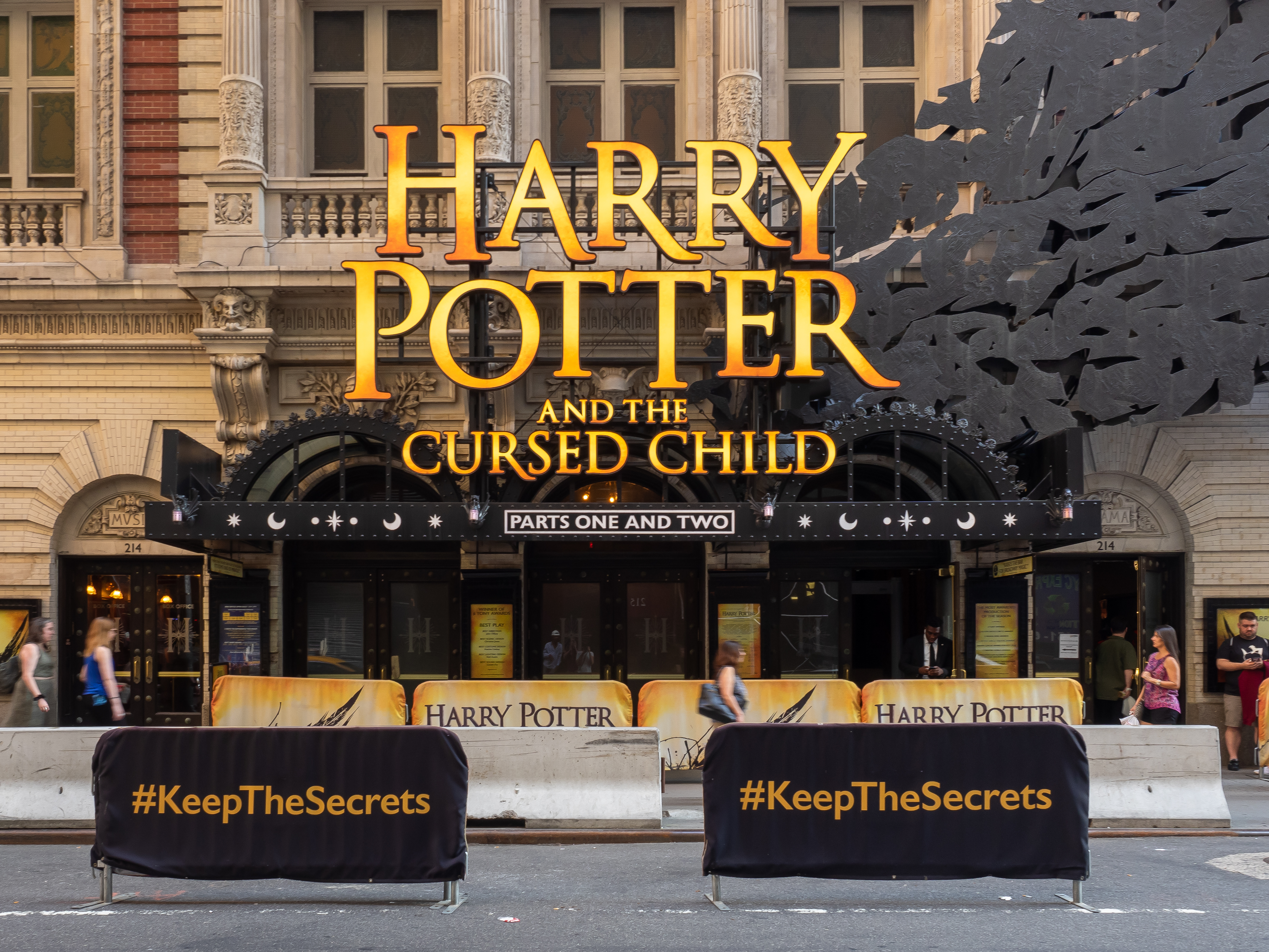 Theater District, Midtown Manhattan, NYC